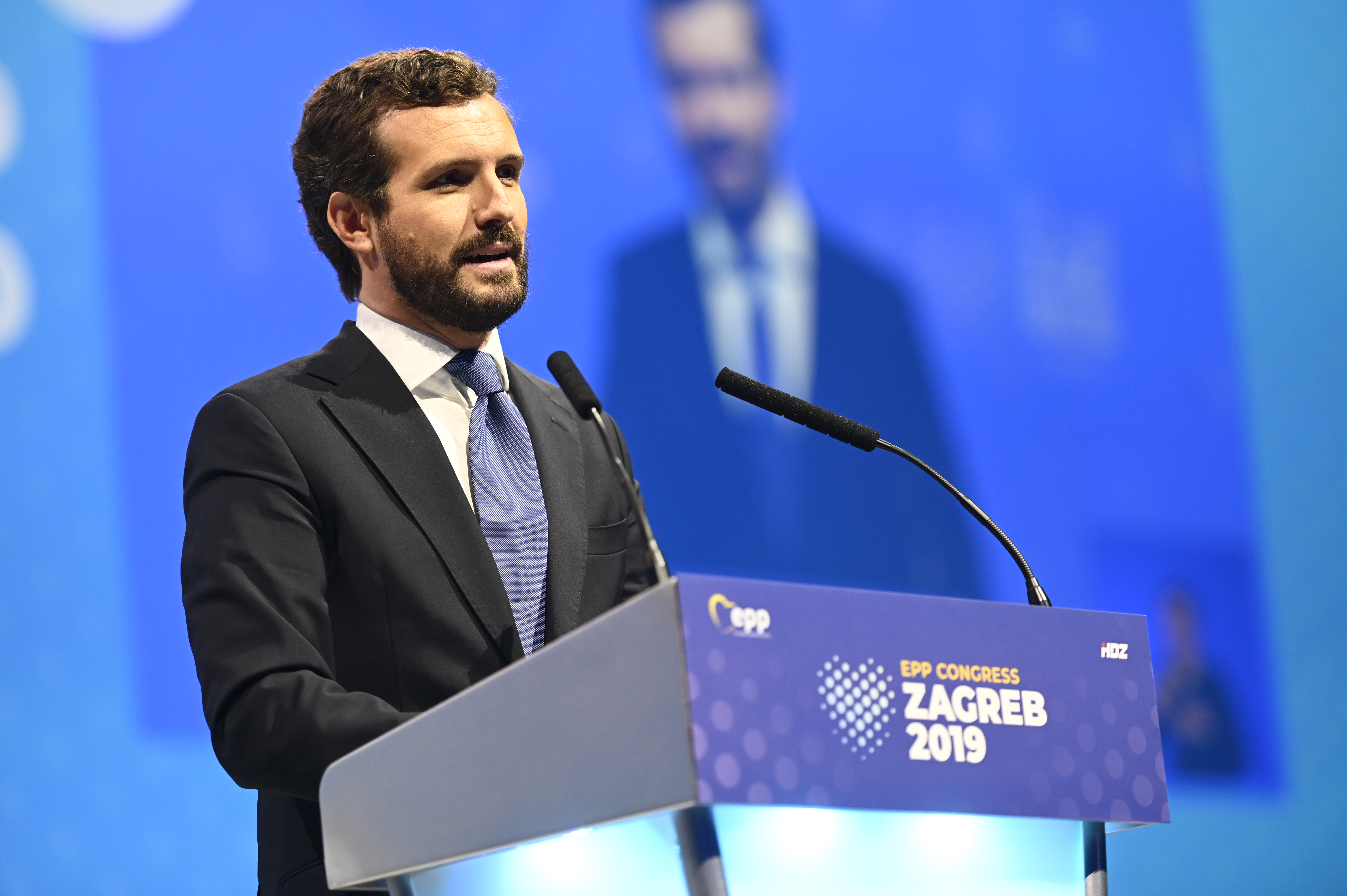 EPP Zagreb Congress in Croatia, 20-21 November 2019